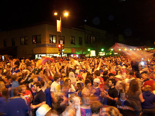 Fans in Lawrence celebrate the Kansas Jayhawks winning the NCAA Men's Basketball National Championship.